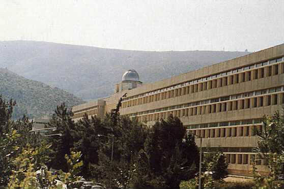 Physics department building at the Zografou campus of the University of Athens. On the roof you can see the department's observatory dome.